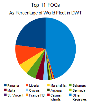 Top 11 registries as percentage of world fleet in deadweight tons.